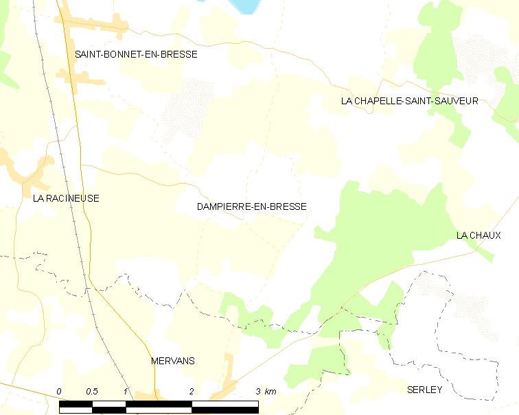 Map of French municipality